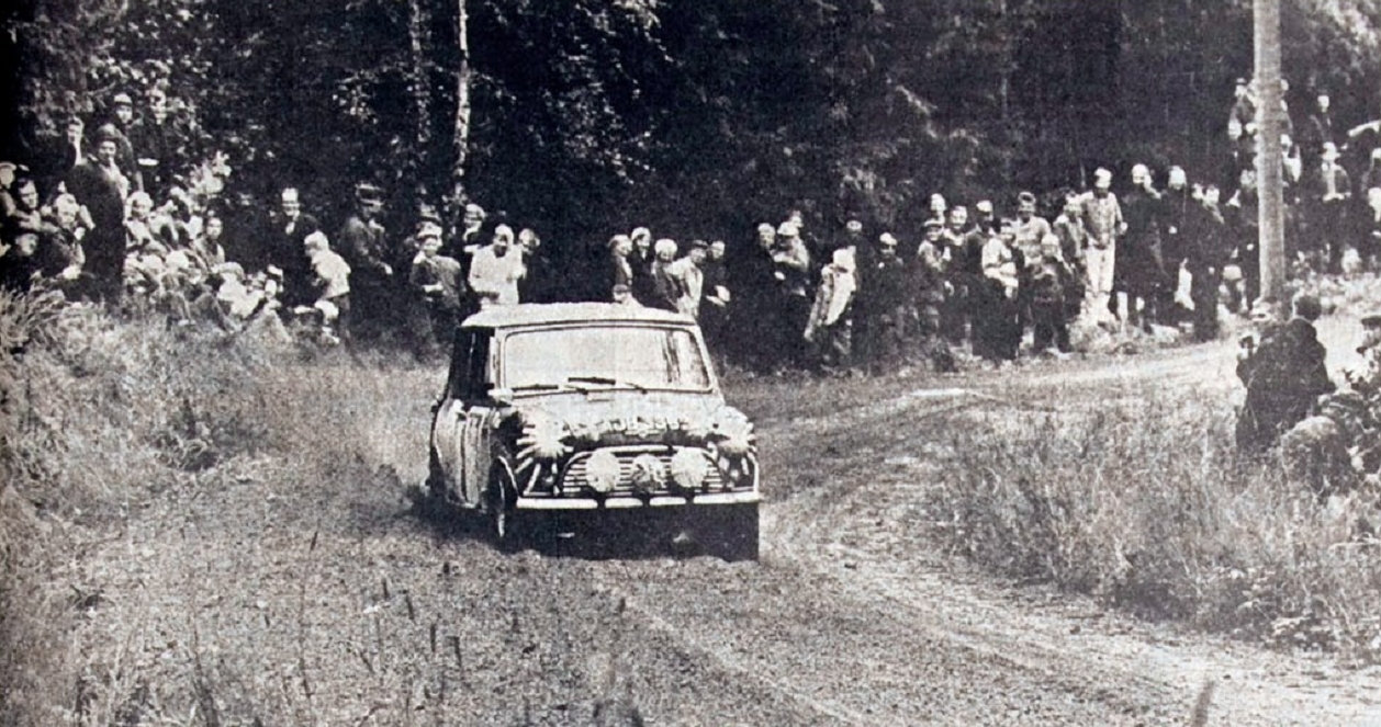 Eventual winner Timo Mäkinen drives his Mini Cooper S at the 1965 1000 Lakes Rally (Rally Finland).